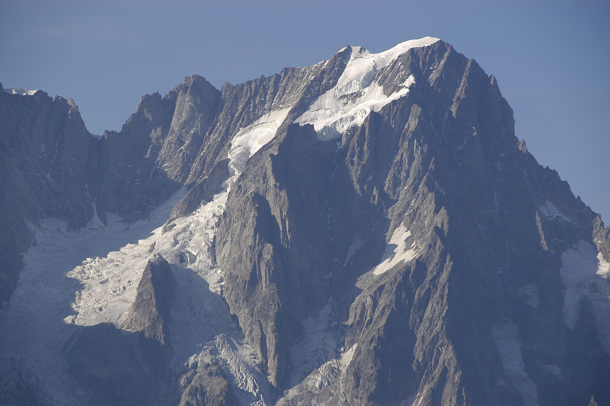 Grandes Jorasses - South face